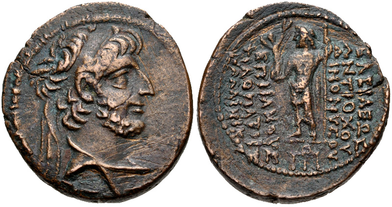 SELEUKID KINGS of SYRIA. Antiochos XII Dionysos. 87/6-83/2 BC. Æ (21mm, 8.17 g, 12h). Damaskos mint. Diademed and draped bust right / Zeus Aëtophoros standing left; monogram in exergue. SC 2481; HGC 9, 1329. VF, brown patina, scratches.